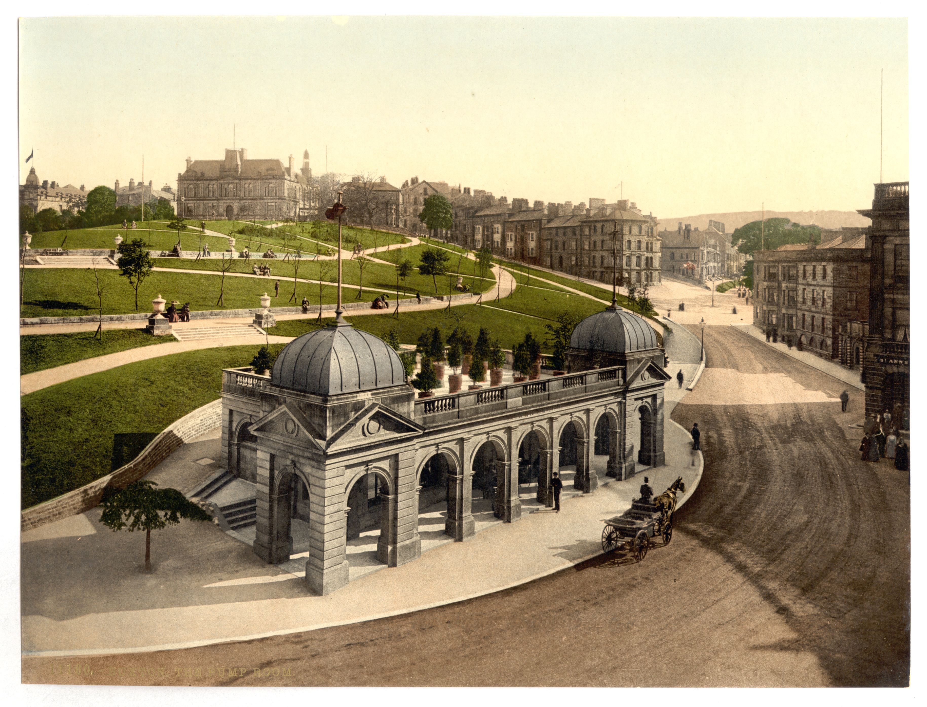 Print no. "11160".; More information about the Photochrom Print Collection is available at Title from the Detroit Publishing Co., Catalogue J-foreign section, Detroit, Mich. : Detroit Publishing Company, 1905.; Forms part of: Views of the British Isles, in the Photochrom print collection.